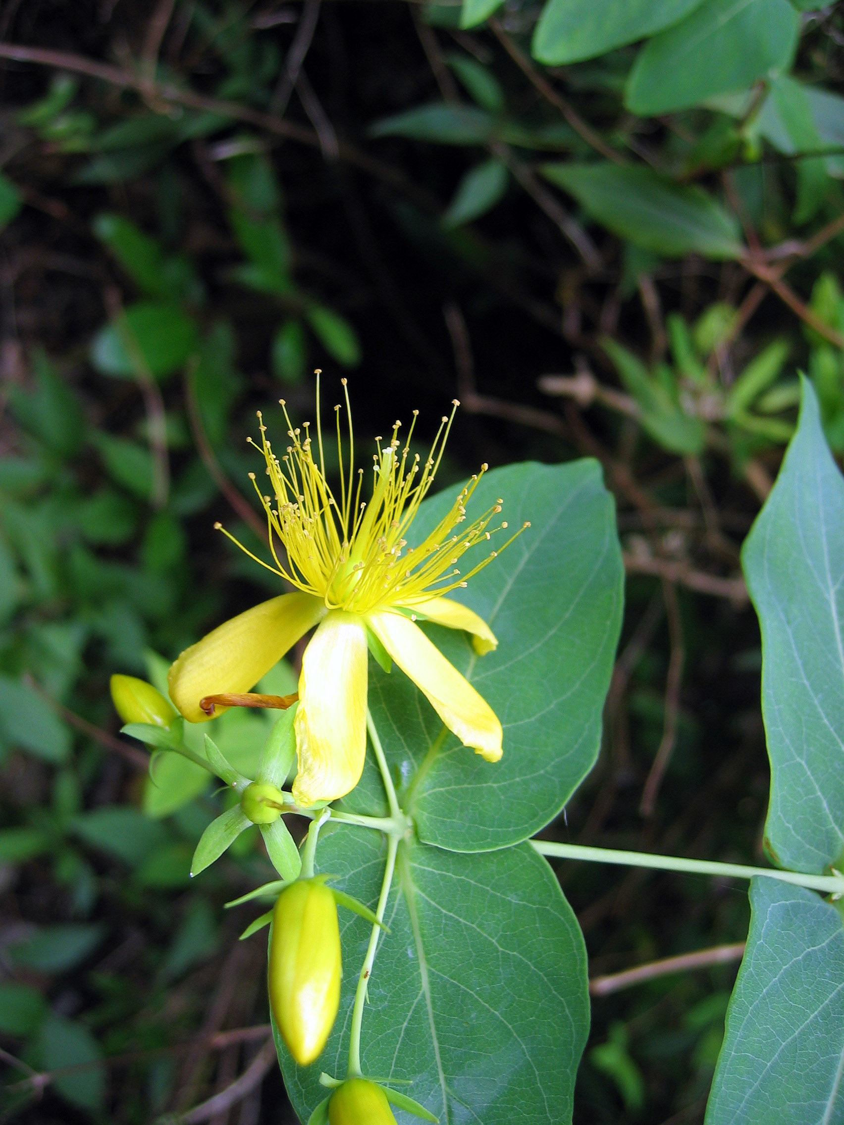 Hypericum grandifolium, Cubo de la Galga, La Palma, Spain